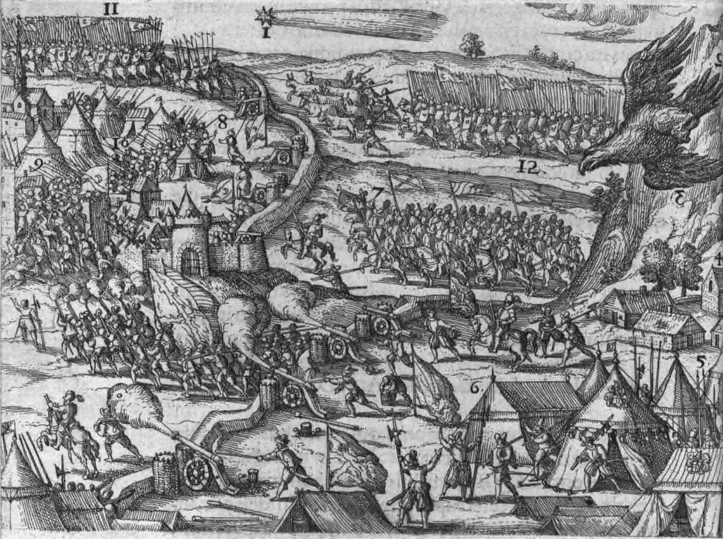 Michael the Brave defeating the Turks in Târgovişte, October 1595. Published in Pannoniae historiae chronologica, pp. 112-113, 1596